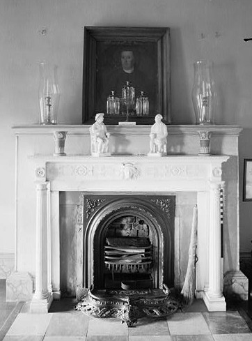 Mantel Bremo Parlor, HABS VA,33-FORKU.V,1-12